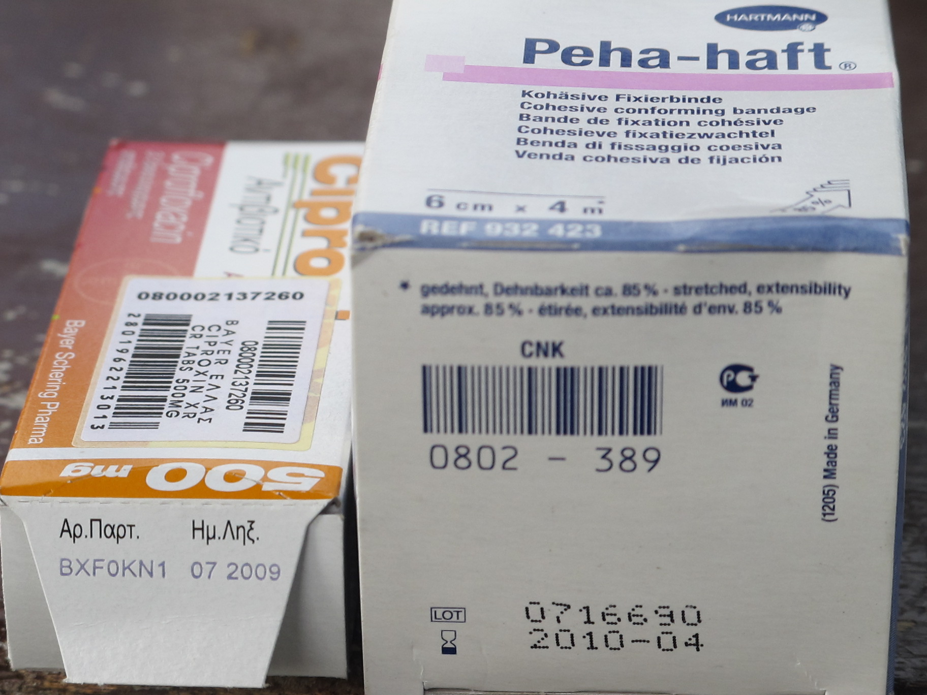 Seen here are two of the boxes of expired medicine which were to be delivered as aid by the Gaza flotilla.